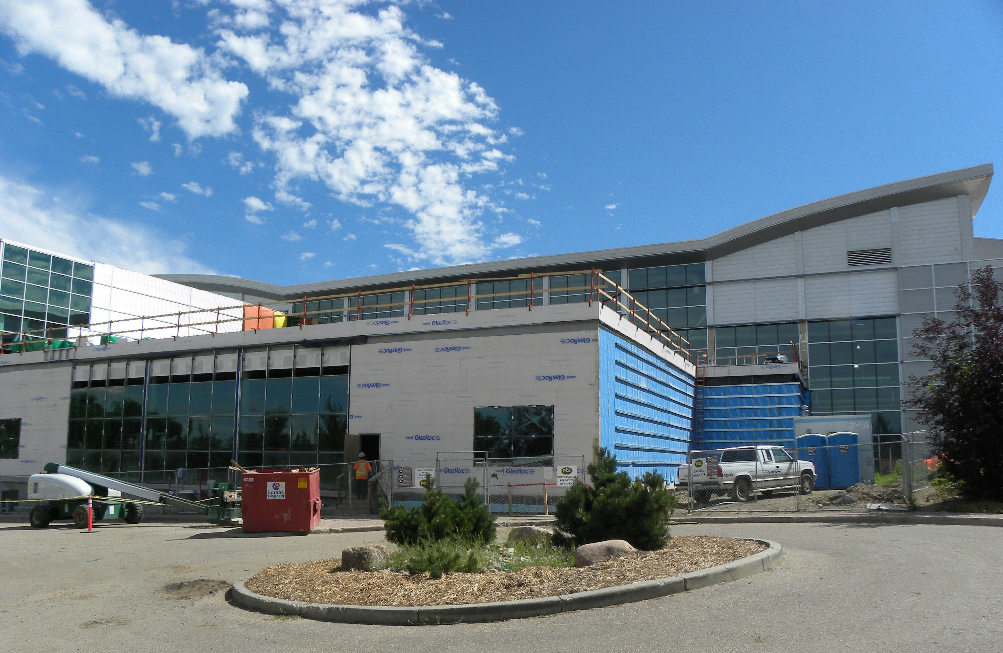 The expansion for the Brockhouse beamlines under constrauction at the Canadian Light Source synchrotron in July 2012